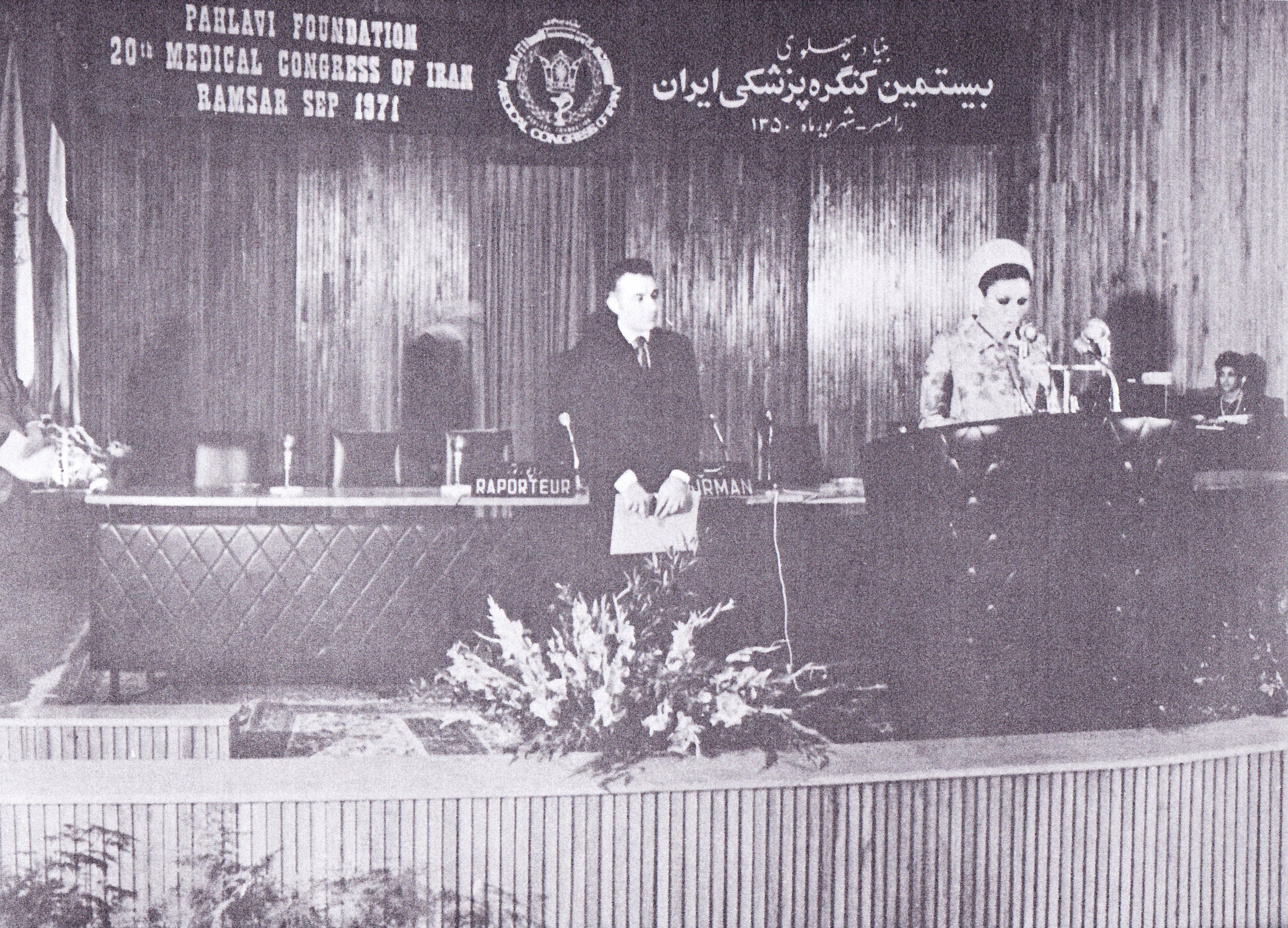 Farah Pahlavi opening speech of the Medical Congres Iran, 1971